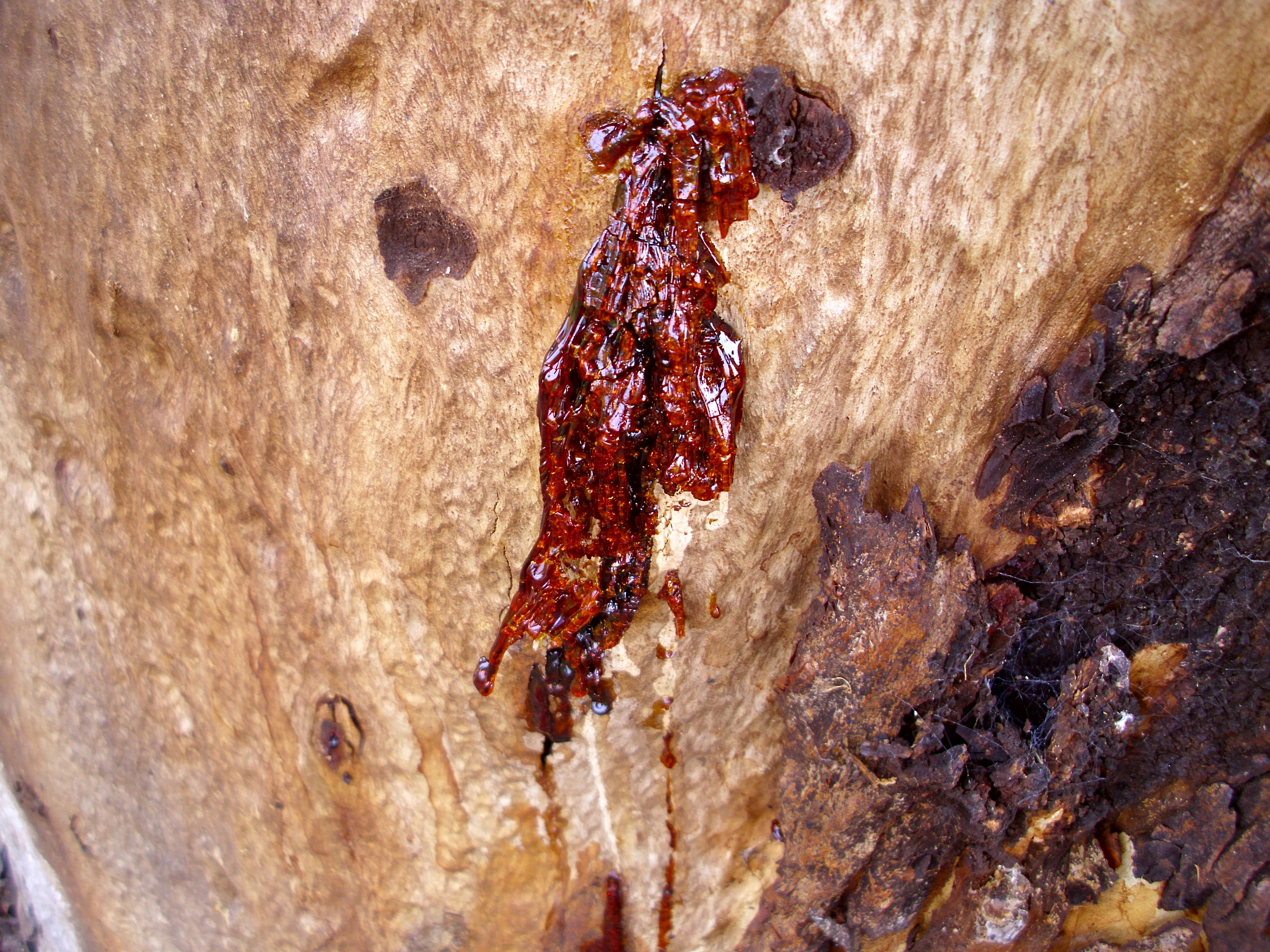 Kino oozing from a small fissure on a Eucalyptus cladocalyx located on the Tarcutta St end of Bolton Park in Wagga Wagga, New South Wales.